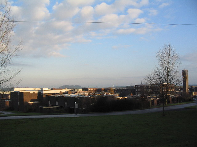 British Geological Survey, Keyworth. Founded in 1835, the world's longest established national geological survey, and the UK's premier centre for earth science information and expertise. The Survey headquarters moved to Keyworth in 1976.